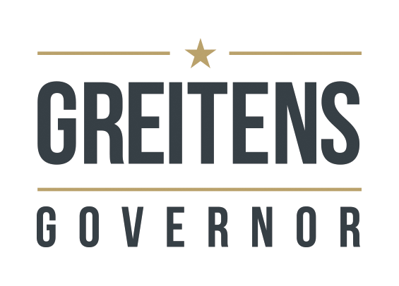 Logo for the campaign of Eric Greitens for Governor of Missouri